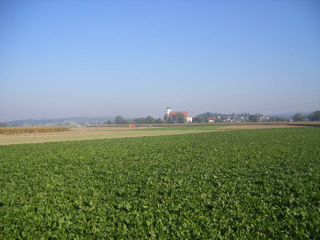 Oberalteich Monastery (Bogen) as seen from the Danube Cycle Route.